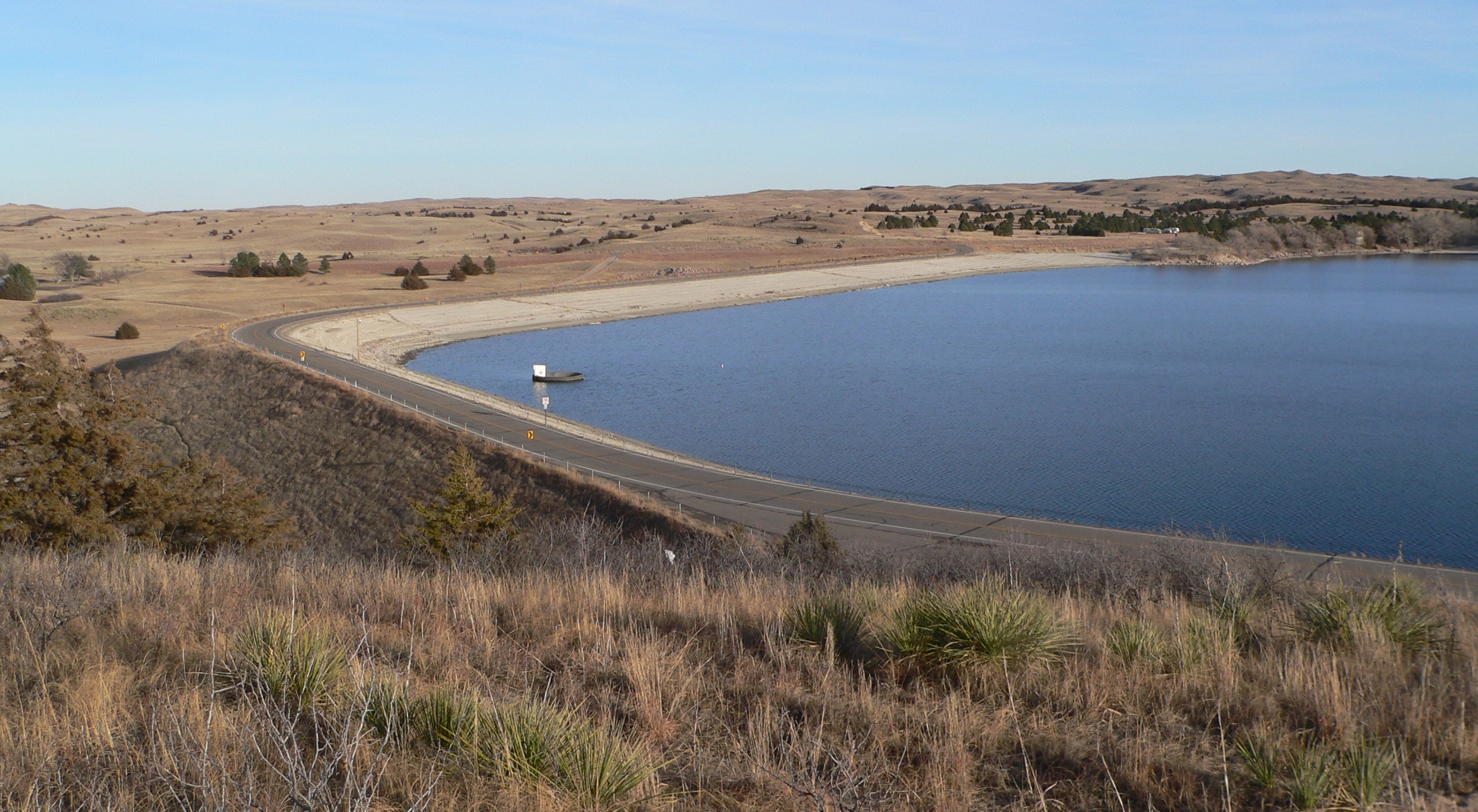 Merritt Dam, located southwest of Valentine in rural Cherry County, Nebraska. View is from the west. Note the bell-mouth spillway at left.